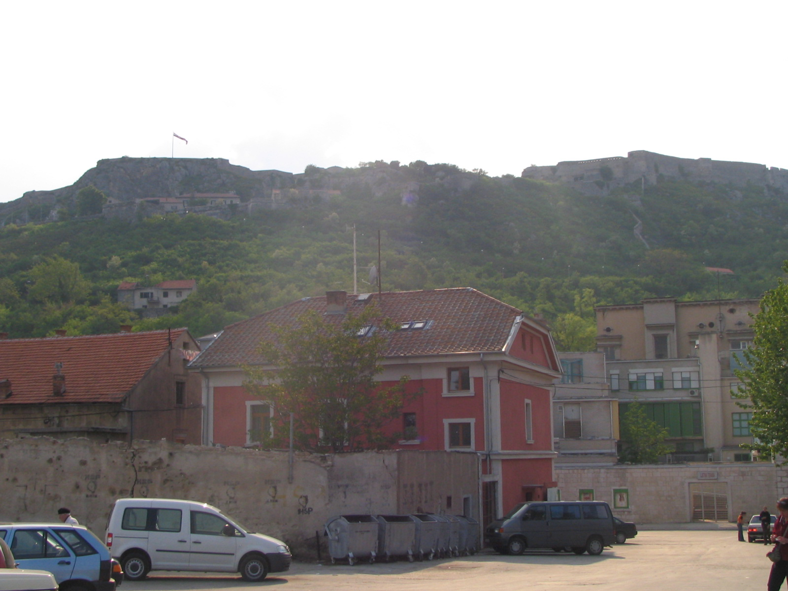 Fortrss in Knin (Croatia) Own photo. 2006